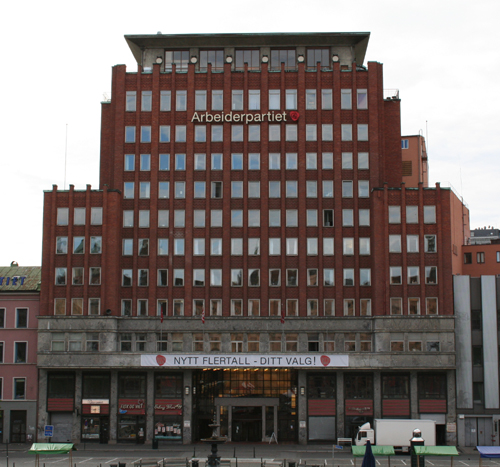 The Arbeiderpartiet headquarters, Oslo